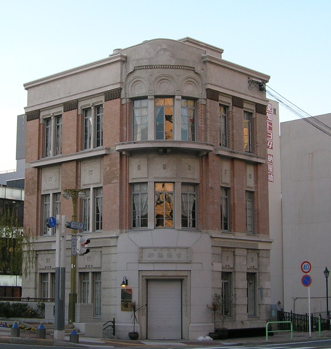 (Kato Shokai, Old Headquarters building.) Loc: Naka-ku, Nagoya city, Aichi Prefecture, Japan